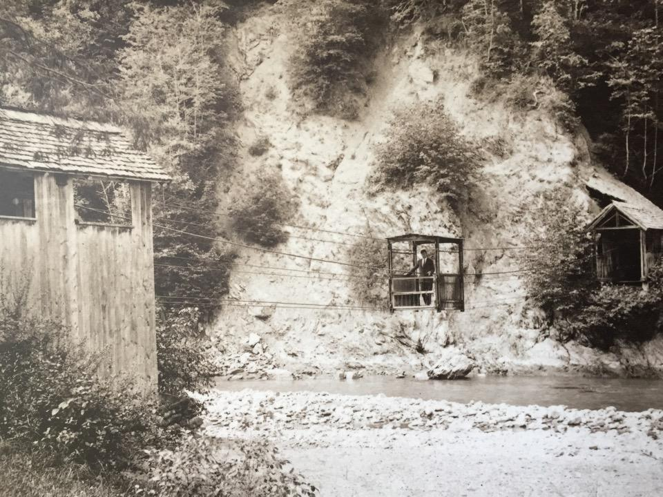 Ropeway-Ferry in Andelsbuch/Schwarzenberg in Vorarlberg, Austria over the river "Bregenzer Ach".